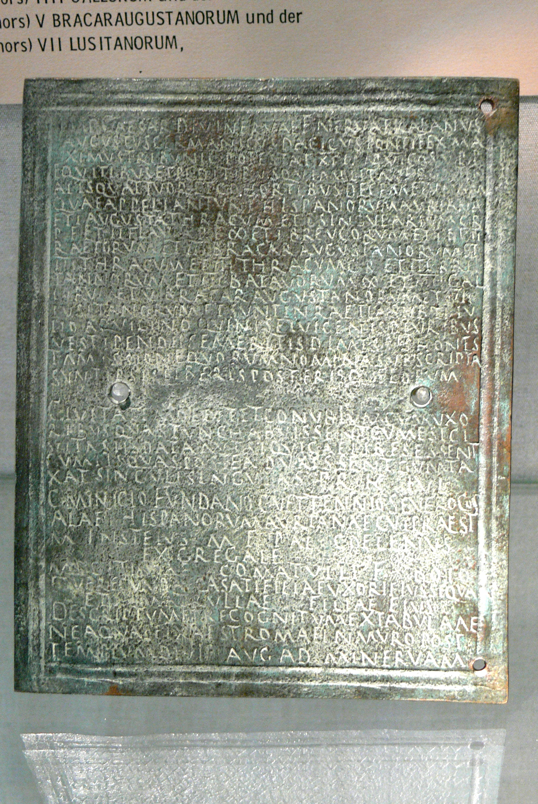 Weißenburg ( Bavaria ). Roman Museum: Military diploma ( 107 AD ) for Mogetissa, a Boian soldier of the Ala I Hispanorum Auriana, and his wife and daughter. Mentioned are 4 alae and 11 cohortes.